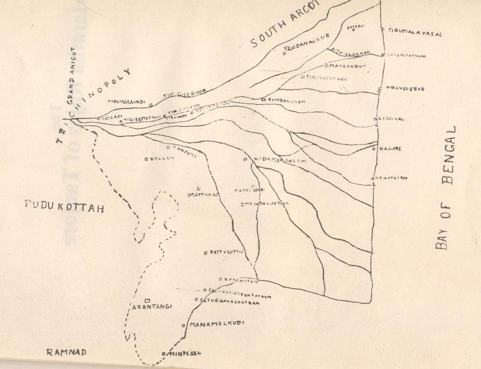 A map of the Thanjavur Maratha kingdom . The Thanjavur Maratha kingdom roughly corresponded to the Chola Nadu region of Tamil Nadu.